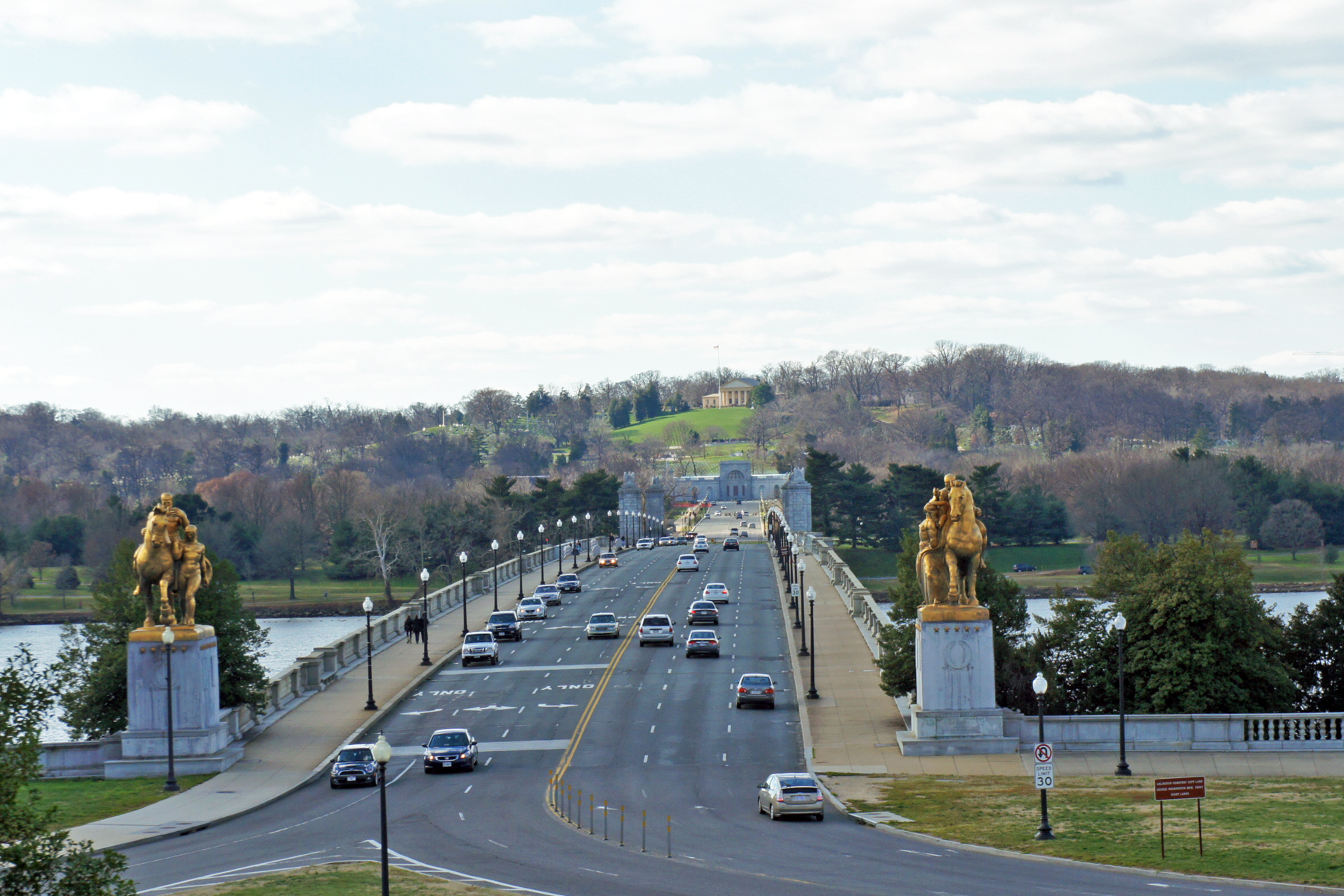 Arlington Memorial Bridge